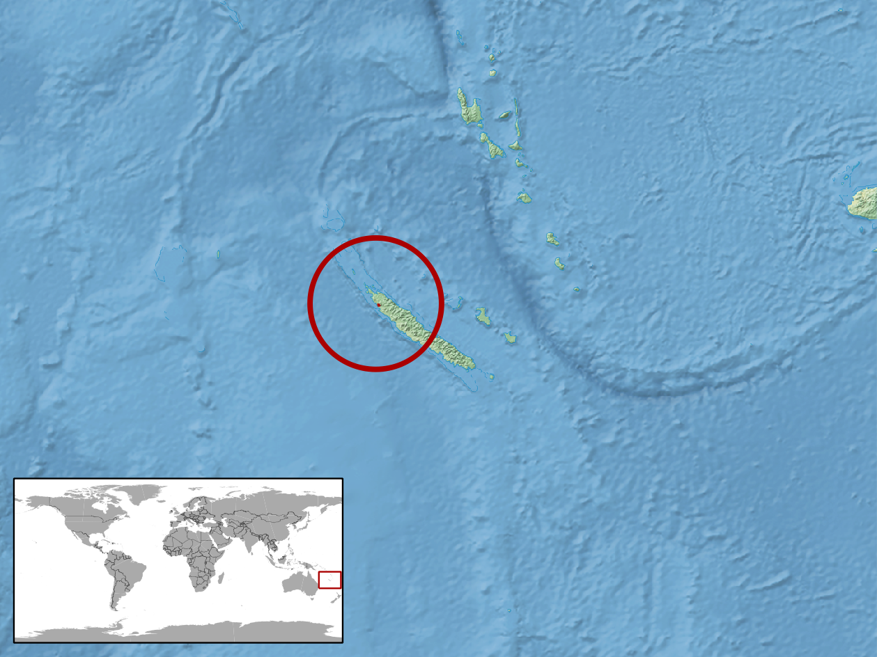 geographic distribution of Marmorosphax kaala